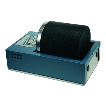 This is a gravitational mini ball mill with a 3 lb rotary tumbler.